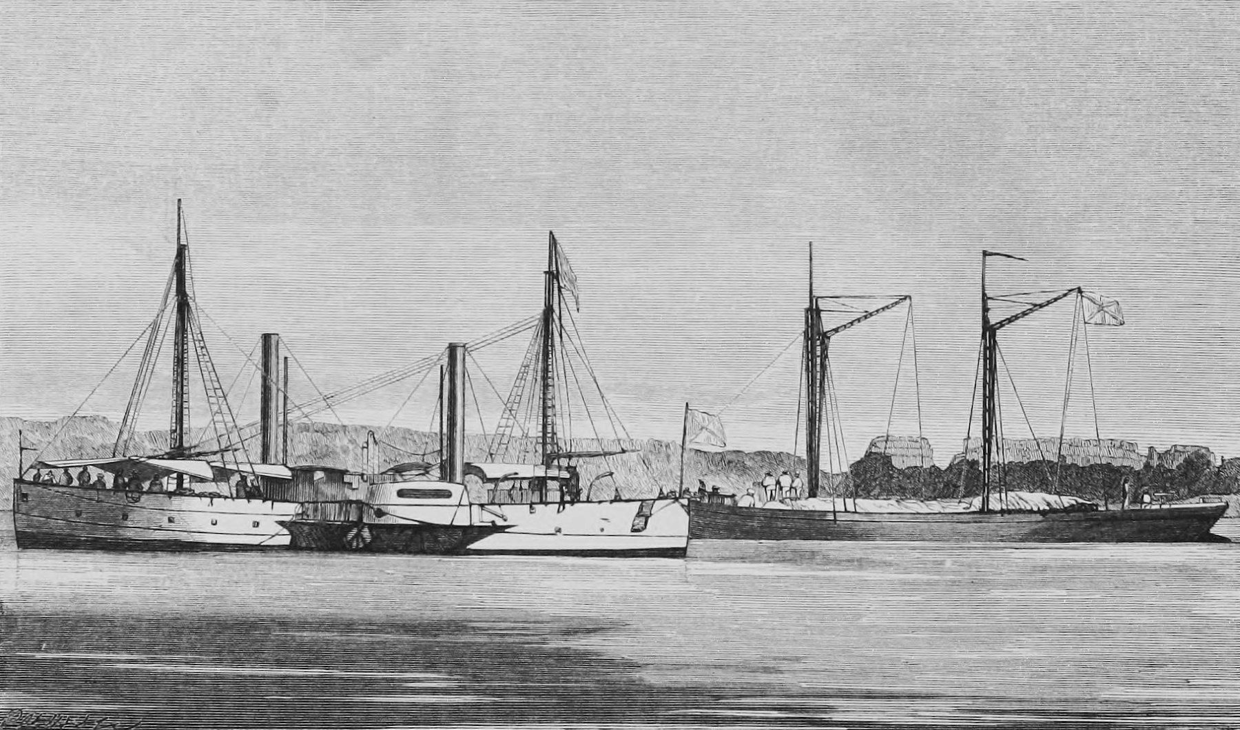 An illustration to a chapter about Russian naval activities on the Aral Sea and the Syr Darya in the 1850s. Original caption: "Russian steam-barges, originally stationed at Fort No. 7, opposite Kungrad on the Syr-Darya". The author may have made a mistake, because today's Kungrad is on the Amu-Darya, not Syr-Darya; possibly, another town (or river arm?) with similar name was meant.